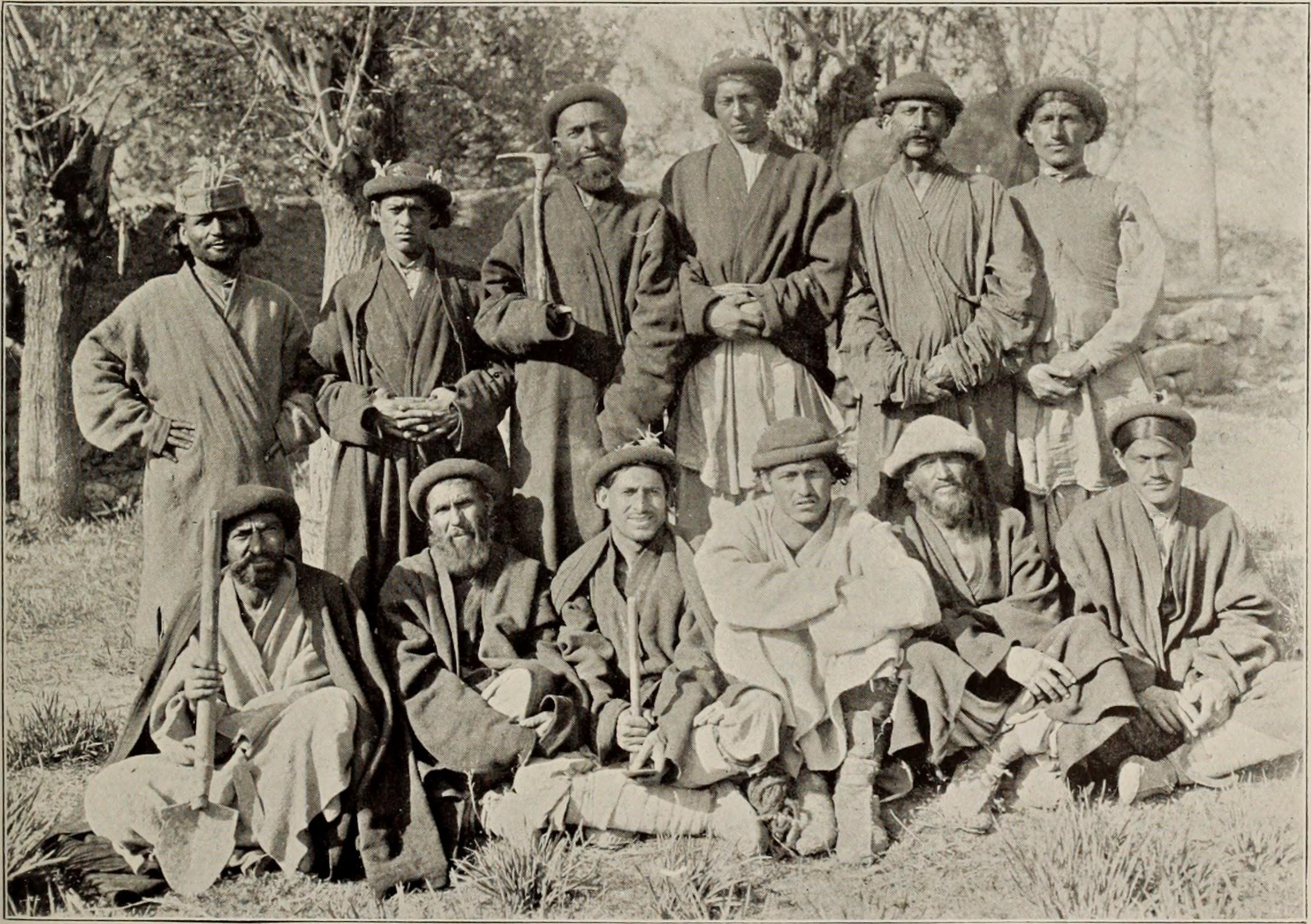 Title: Ruins of desert Cathay : personal narrative of explorations in Central Asia and westernmost China Year: 1912 (1910s) Authors: Stein, Aurel, Sir, 1862-1943 Archaeological Survey of India Subjects: Publisher: London : Macmillan Text Appearing Before Image: II. BASHGALI KAFIRS SETTLED AT AYUN, CHITRAL. Text Appearing After Image: 12. CHITRALI VILLAGERS COLLECTED FOR ANTHROPOMETRICAL EXAMINATION. cH.iv TO THE CHITRAL CAPITAL 33 between the Chitralis and the Galcha tribes north of the Hindukush, those typical representatives of the Homo Alpinus in Asia, this resemblance is not difficult to account for. Something in the long ample garments,usually of brown wool, the round caps with upturned brims, and the rich locks hanging down to the neck,seemed to project these figures into Southern Europe of the late middle ages. Callous and born conspirators Chitralis have often been called, and the tangled web of intrigue, murder, and treachery which constitutes what is known of the modern political history of the little mountain state seems fully to support this description. But with all the vices which these kaleidoscopic usurpations and betrayals reveal in the leading classes, good manners and cultured ways of enjoyment do not appear to have suffered. Pliability and polished discretion were, no doubt, needful for all whenthe chances o